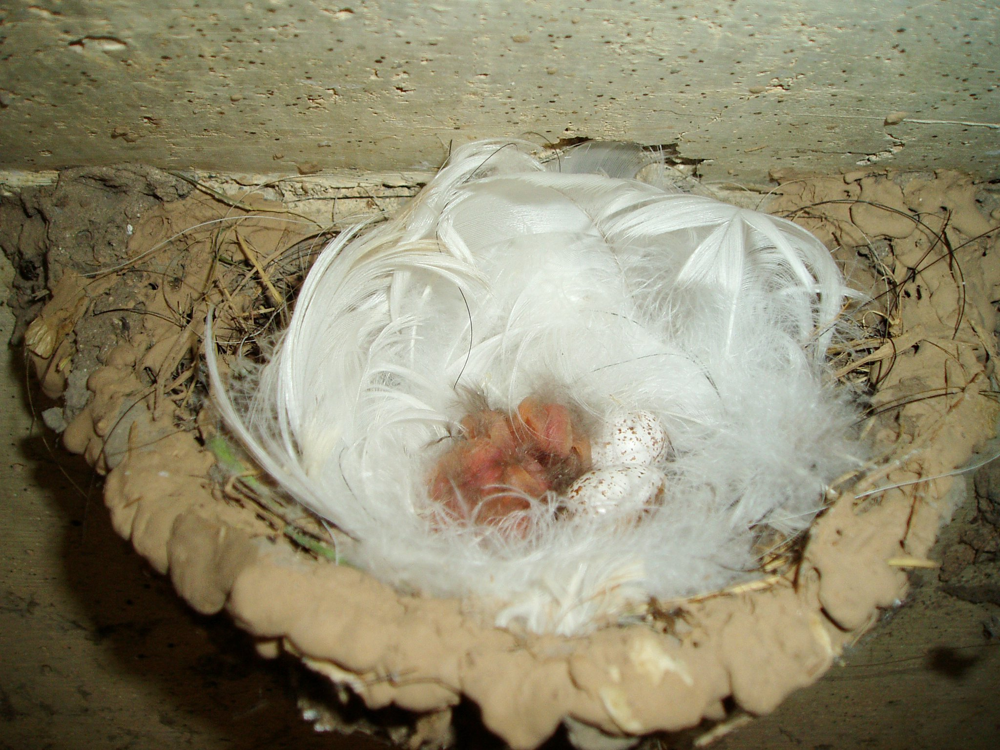 This is a picture taken by me.